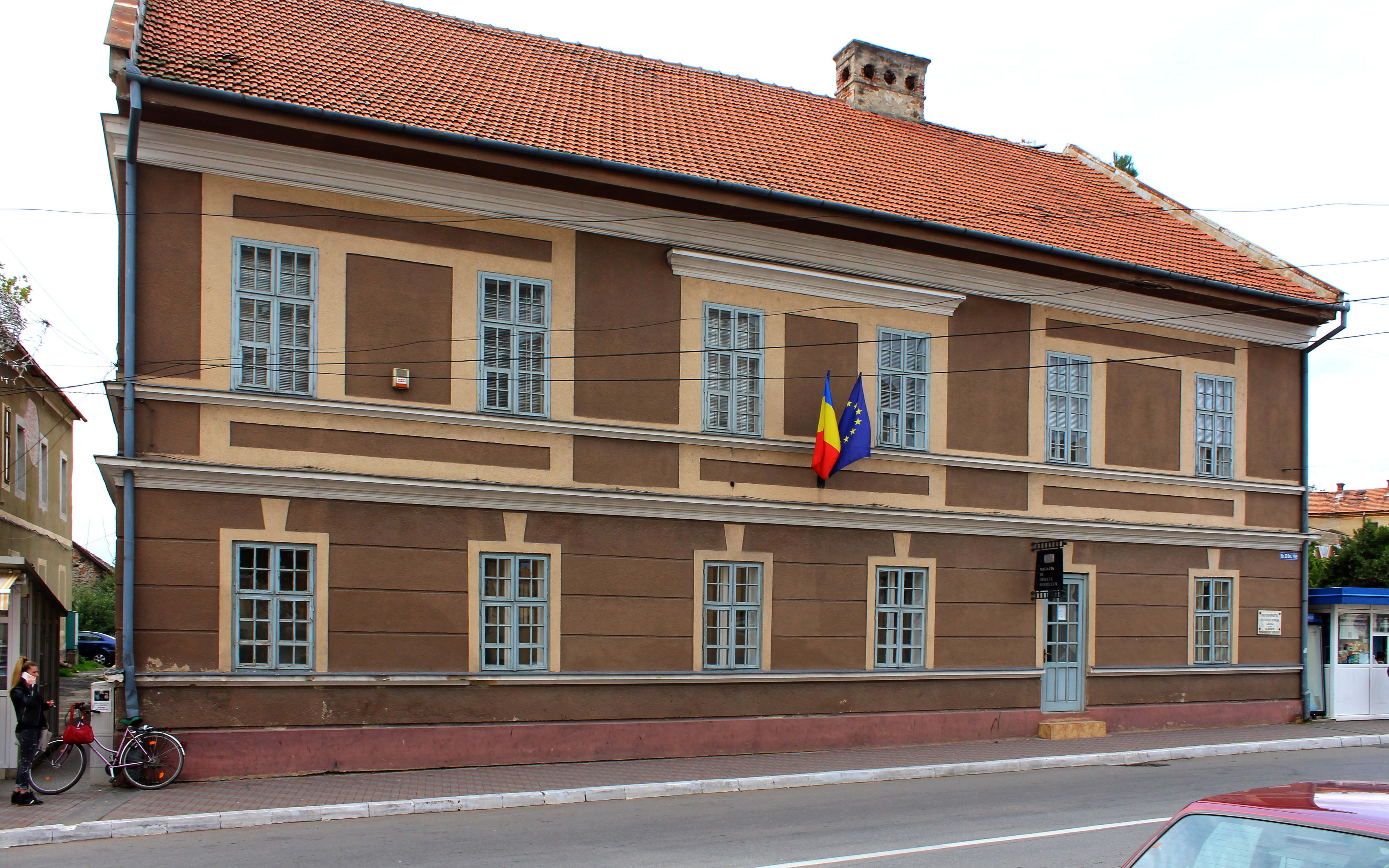 Former post office inn, Lugoj, Romania